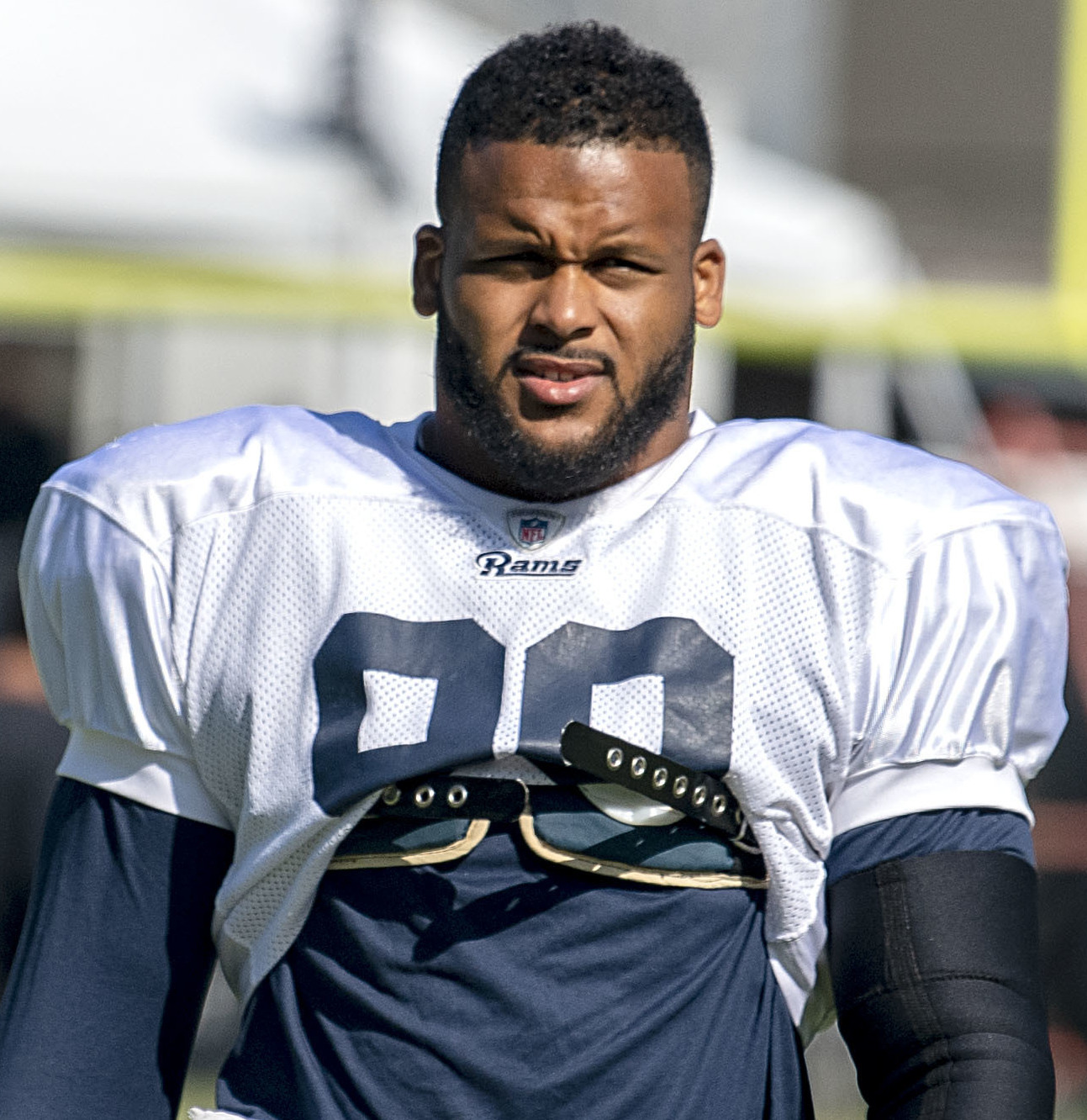 Los Angeles Rams defensive tackle, Aaron Donald, participating in a joint practice with the Oakland Raiders during the 2019 training camp.